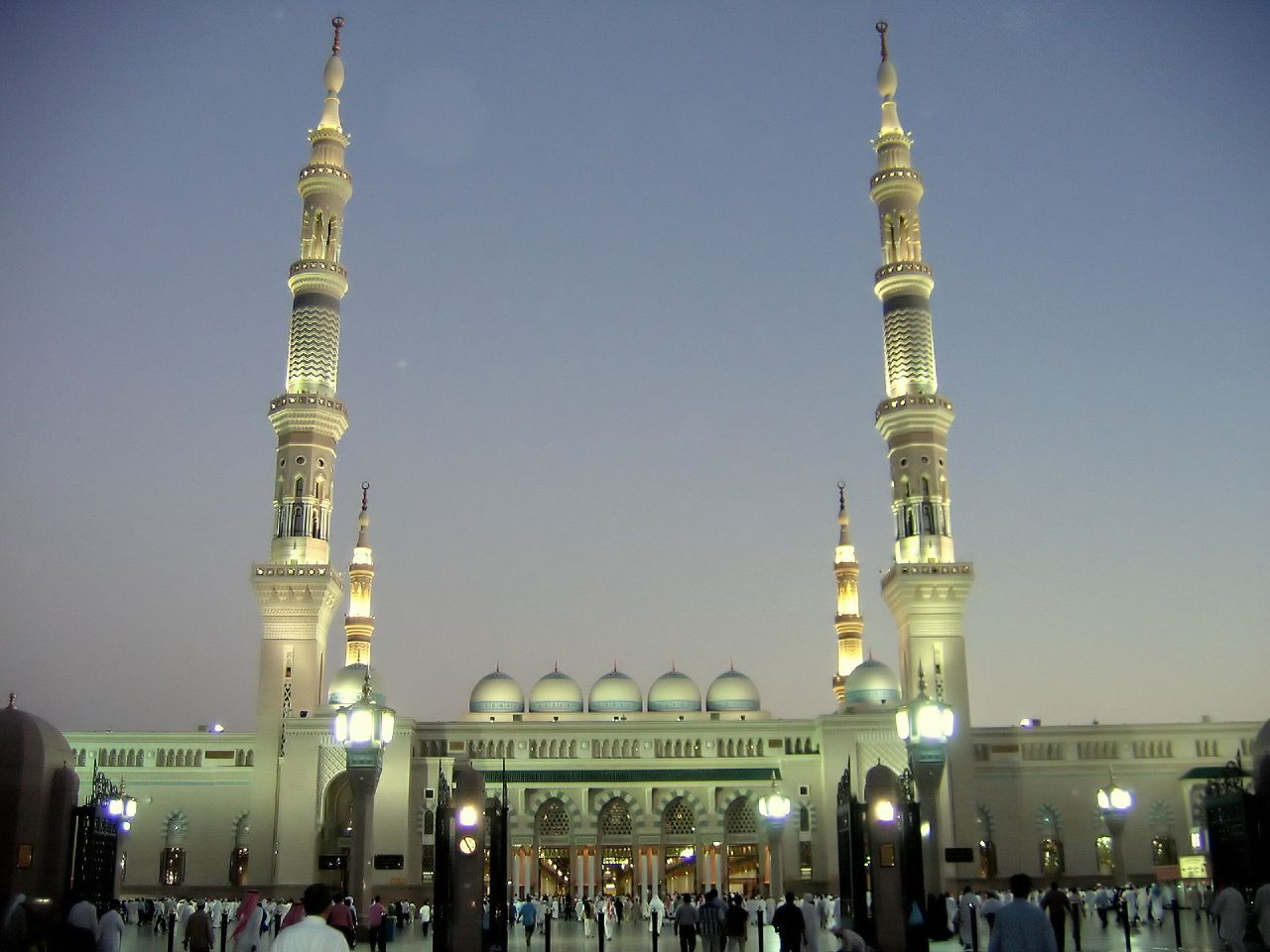 Al-Masjid al-Nabawi mosque — Medina, Saudi Arabia.